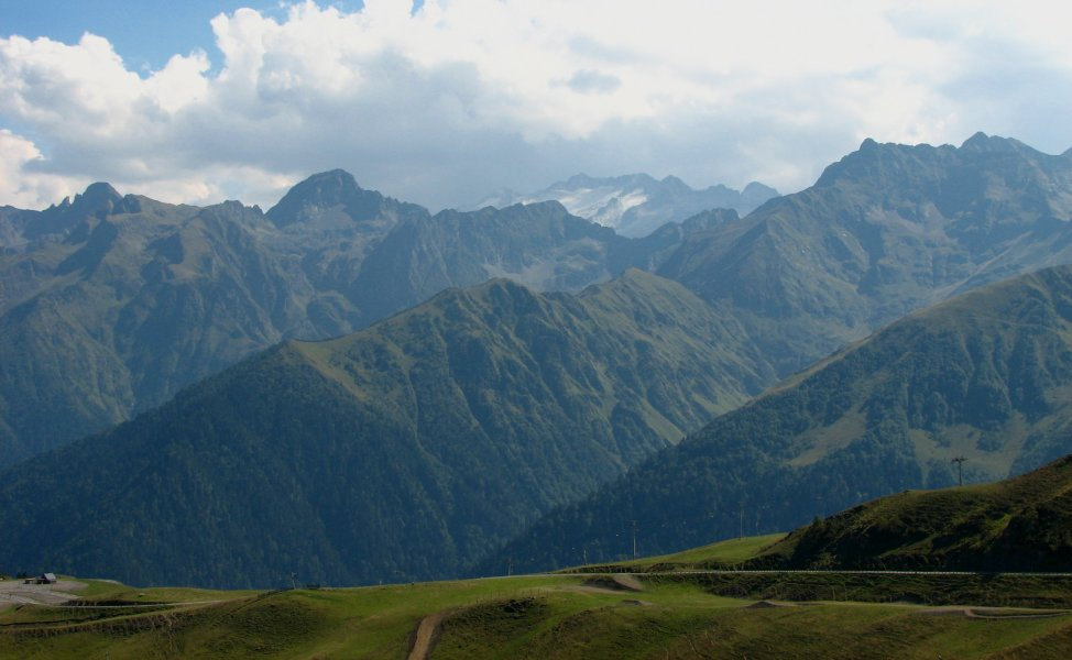 Superbagneres Ski station in the summer. Looking towards Pic D'Aneto and the glacier.